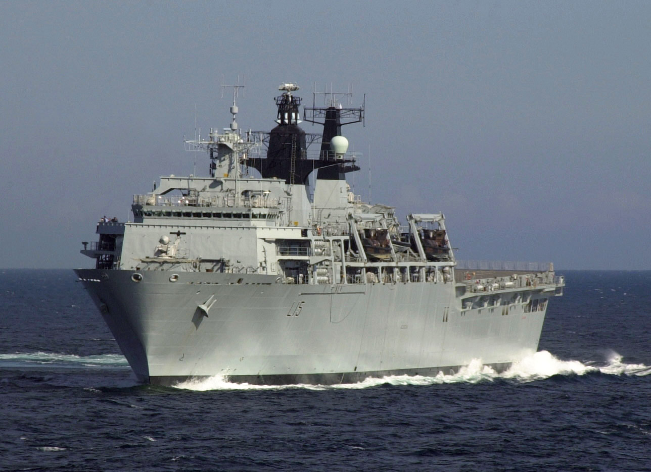 HMS Bulwark, an Albion class landing platform dock of the Royal Navy commissioned in 2004, seen in 2007.